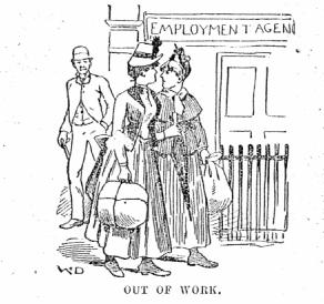 Two women walking outside an employment agency.